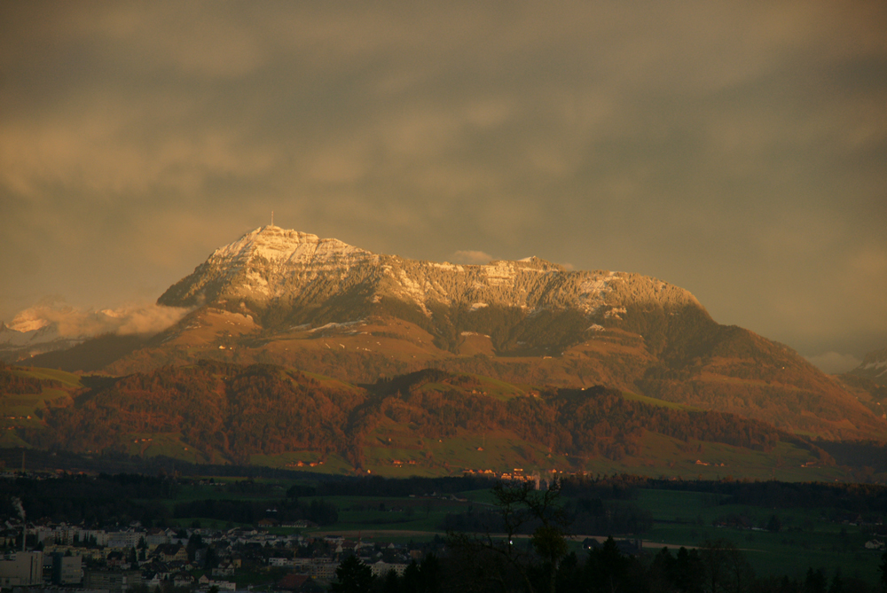 Mount Rigi, Switzerland